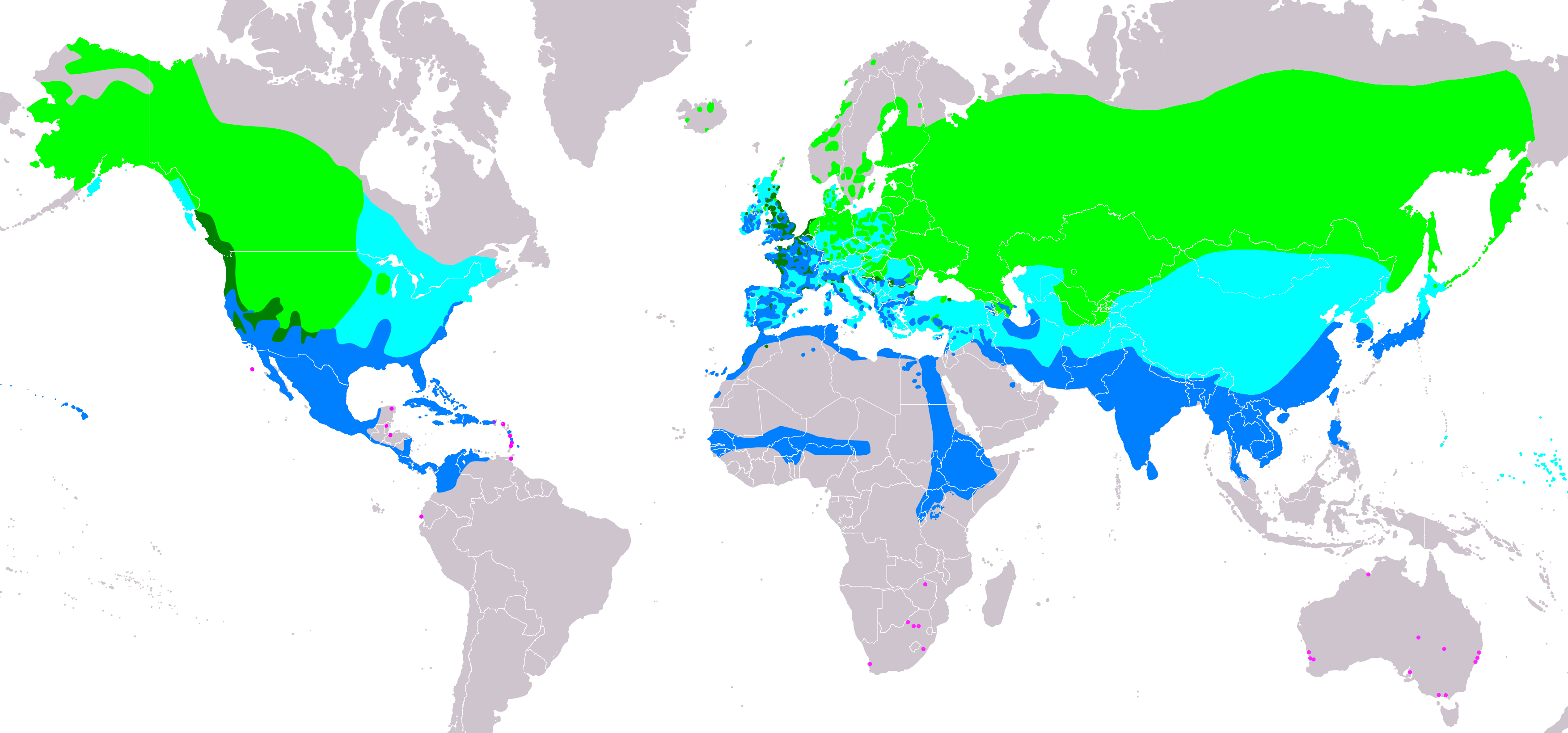 Distribution map of northern shoveler (Spatula clypeata) according to IUCN version 2019-2 ; key: Legend: Extant, breeding (#00FF00), Extant, resident (#008000), Extant, passage (#00FFFF), Extant, non-breeding (#007FFF), Extant & Vagrant (seasonality uncertain) (#FF00FF), Extant & Introduced (seasonality uncertain) (#a76f3b)